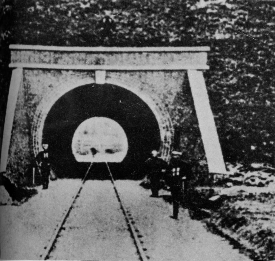 Ishiyagawa tunnel, the first rail tunnel in Japan.